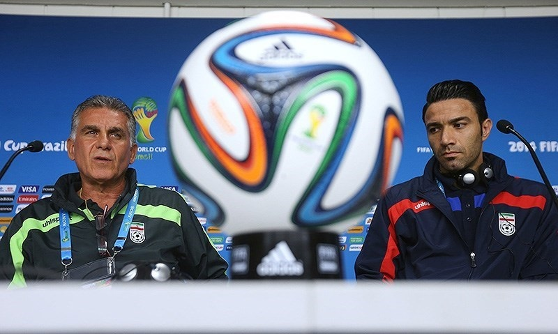 Iran national football team manager Carlos Queiroz along with team captain, Javad Nekounam in press conference before Nigeria match, 2014 FIFA World Cup